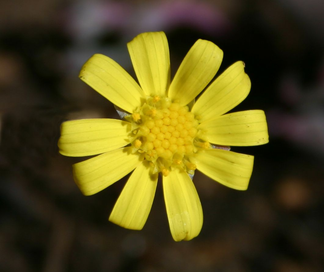 Ruimsig Botanical Gardens, Johannesburg